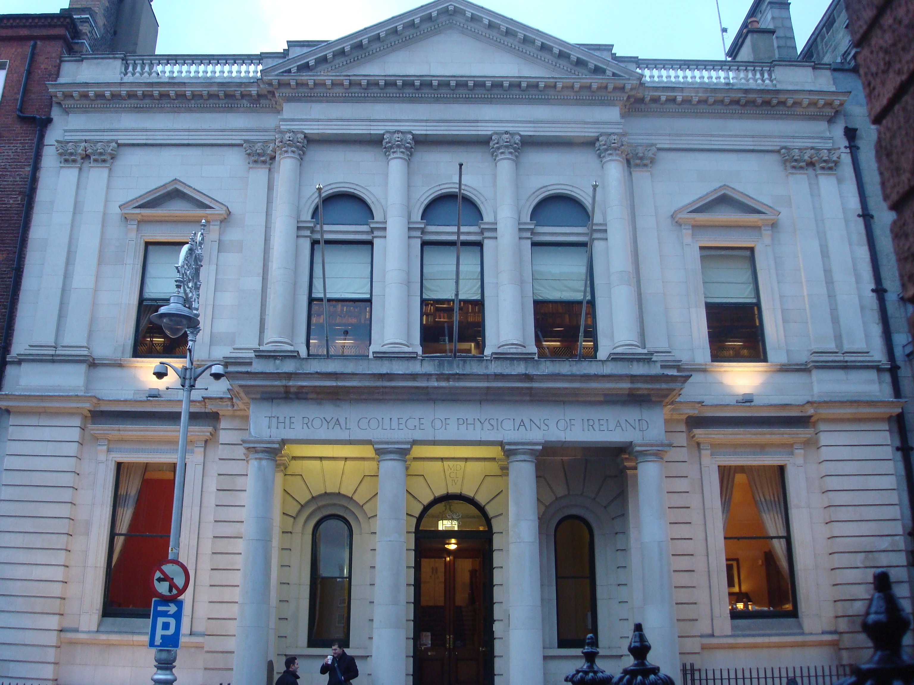 Royal College of Physicians of Ireland, Kildare Street, Dublin